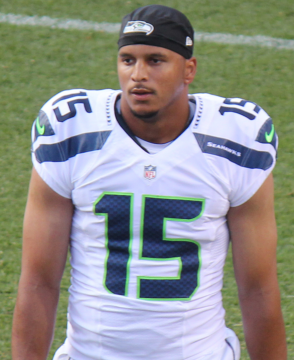 Jermaine Kearse, a player on the National Football League.